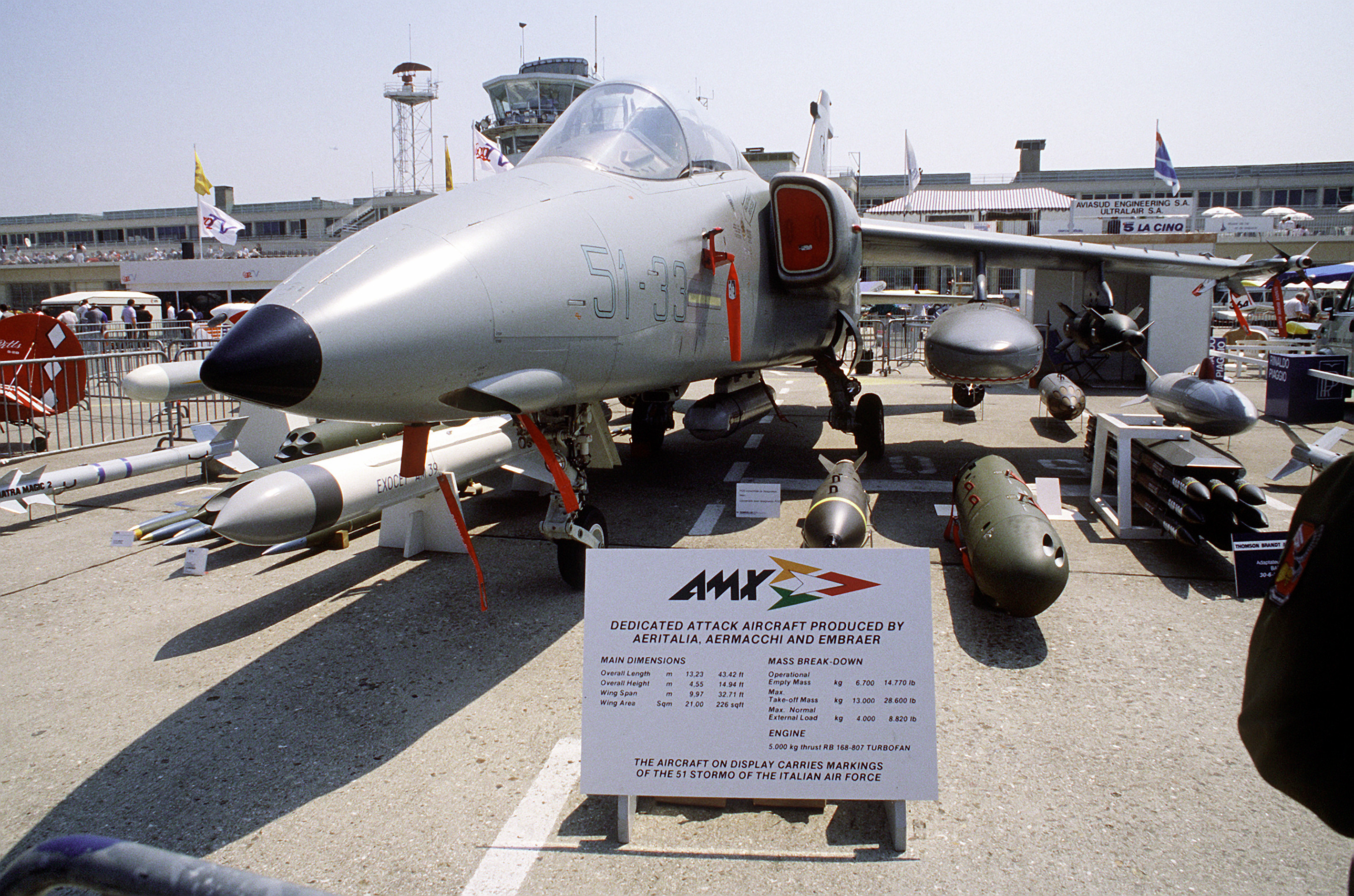 A front right side view of an Italian-Brazilian AMX aircraft on display at the 38th Paris International Air and Space Show at Le Bourget Airfield.